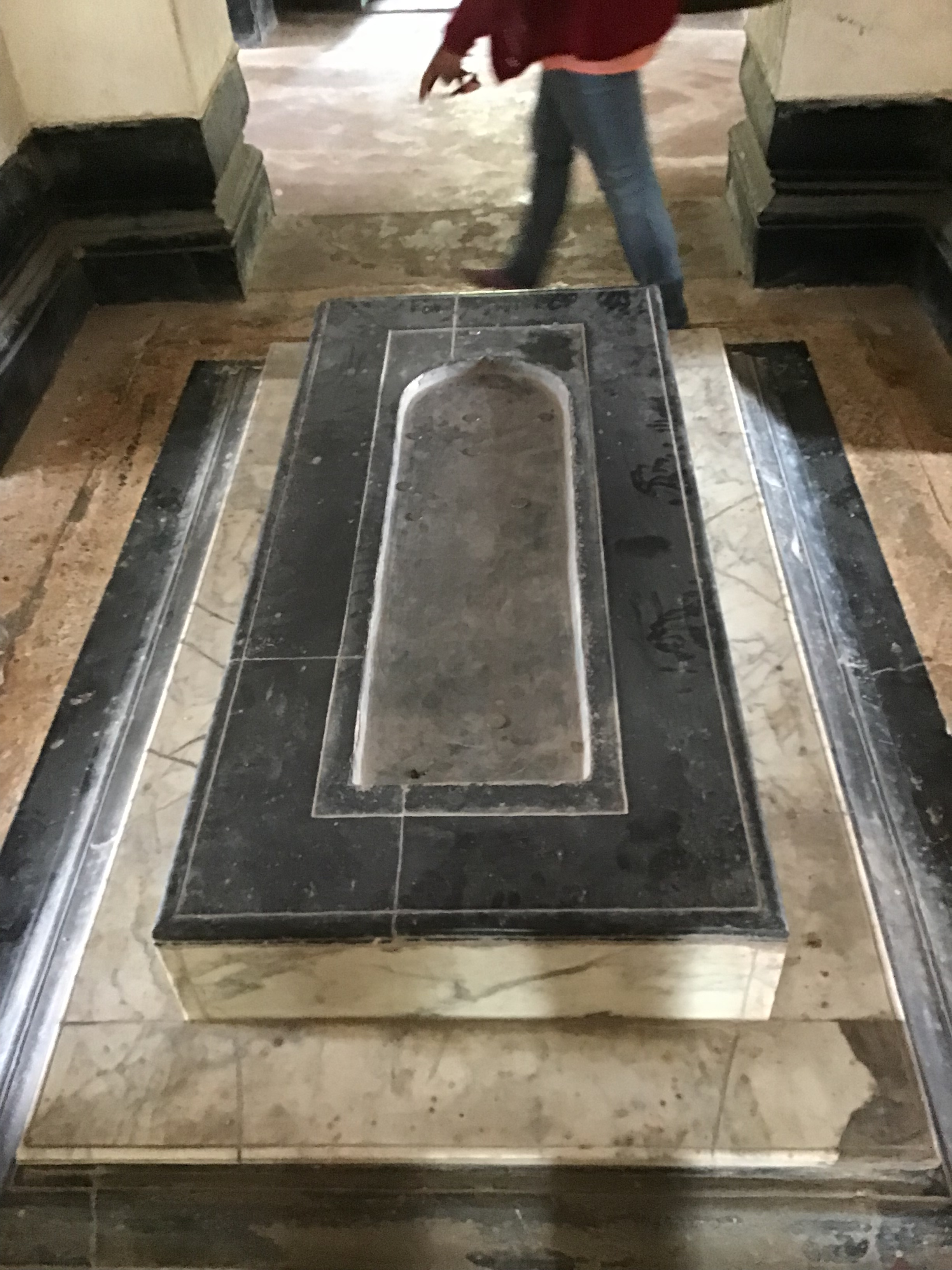 Tomb of Nawab Alivardi Khan, Khosbag, Murshidabad, India